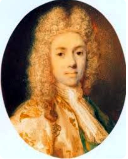 Miniature of William Murray, Marquess of Tullibardine, painted during exile (1719-45)